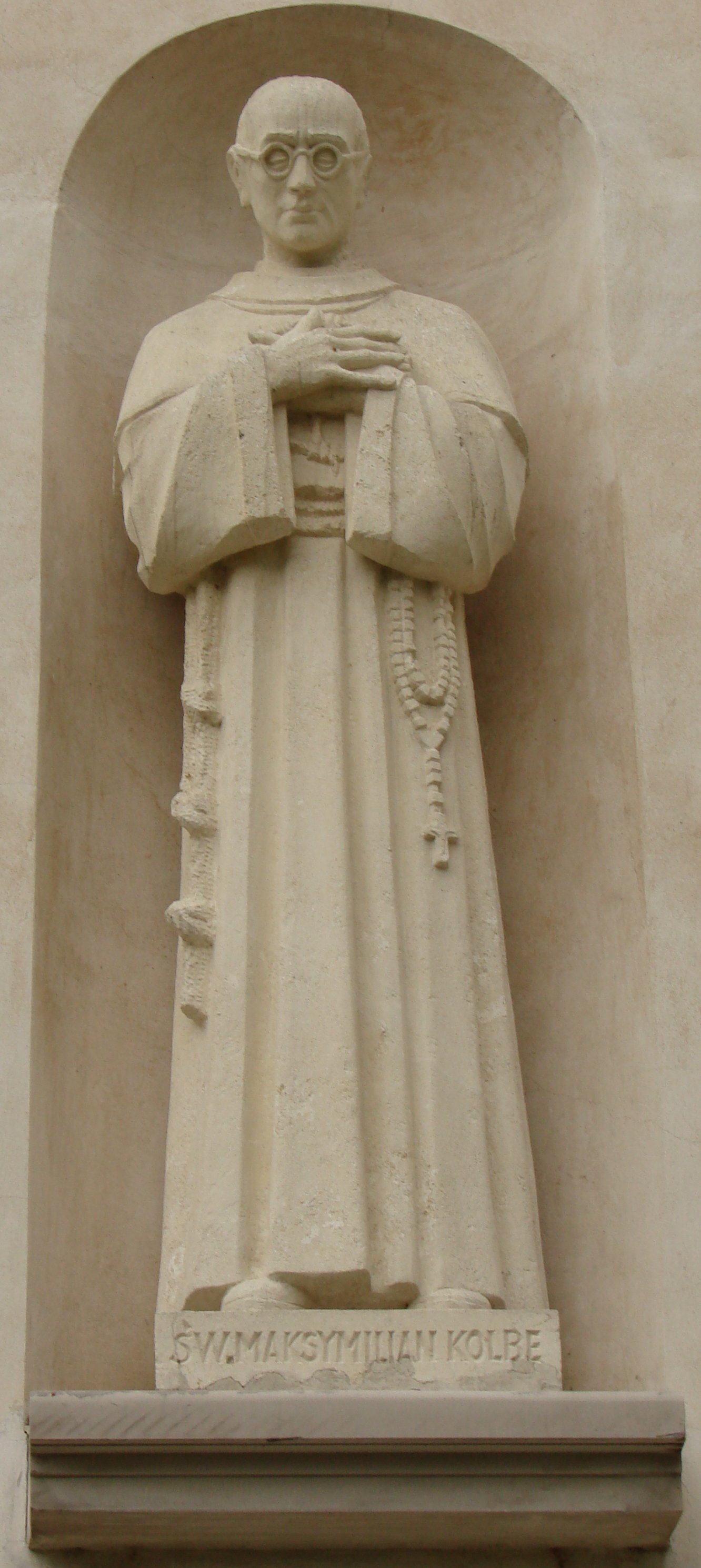 Sculpture of Maksymilian Maria Kolbe from Saint Joseph's church in Muszyna, Poland